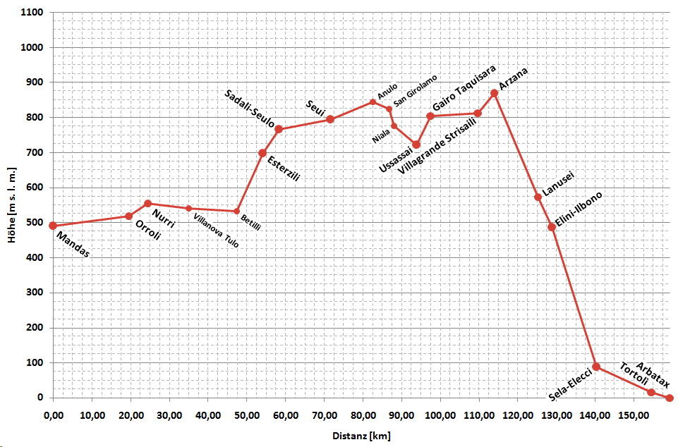 simplified altitude-profile of railway track Mandas–Arbatax